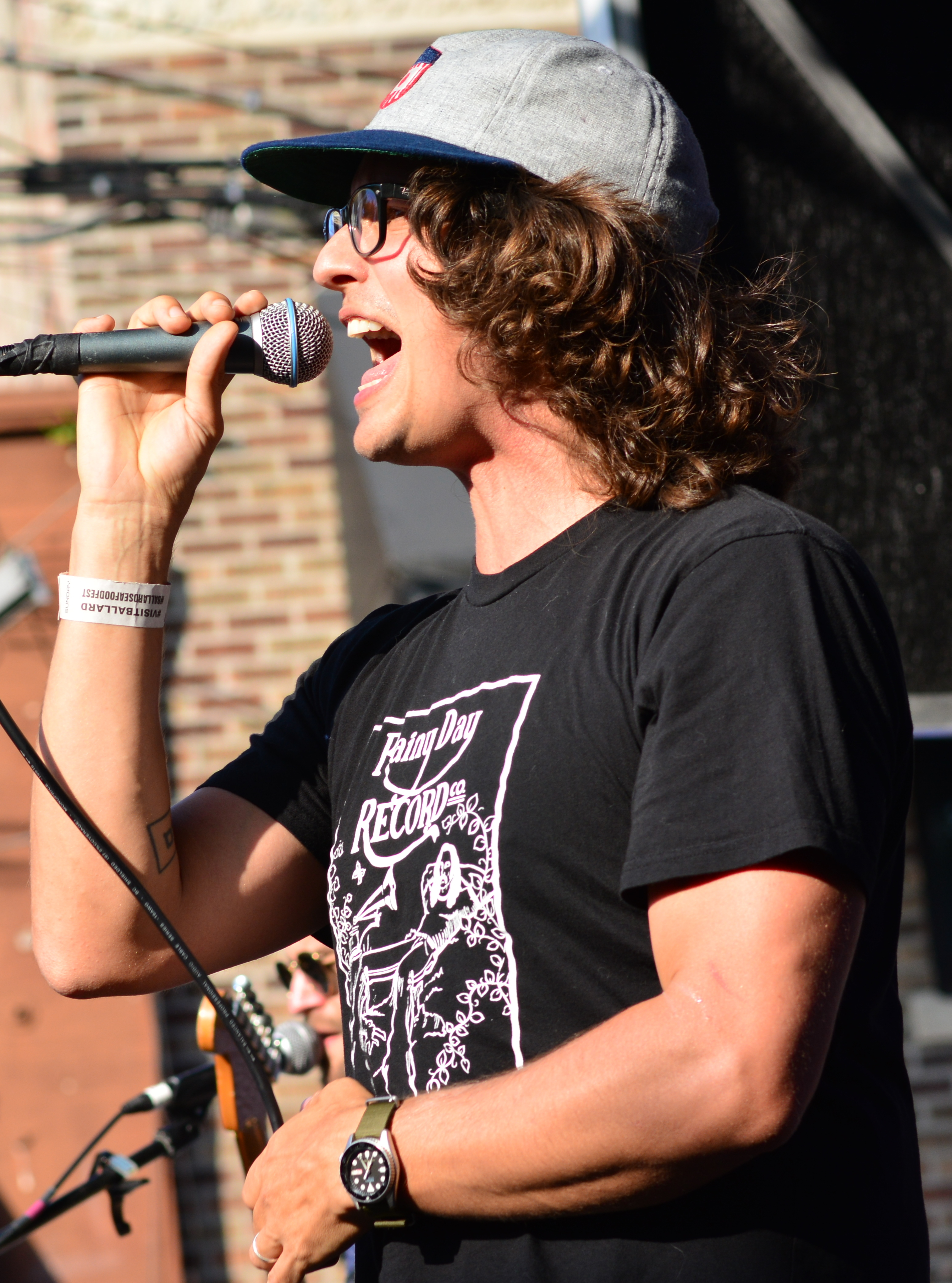 Galen Disston, lead vocalist of Pickwick, performing at the 2019 Ballard Seafood Fest.